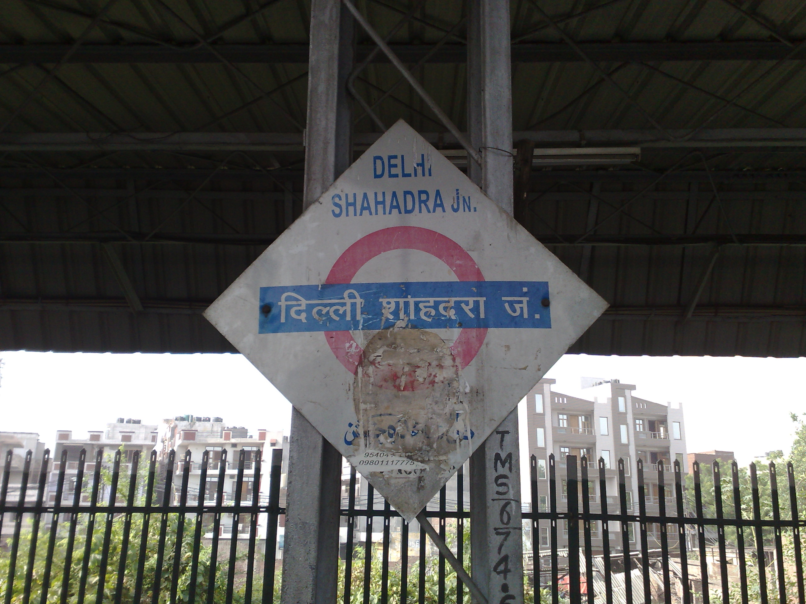 Delhi Shahdara Junction railway station - Platform board